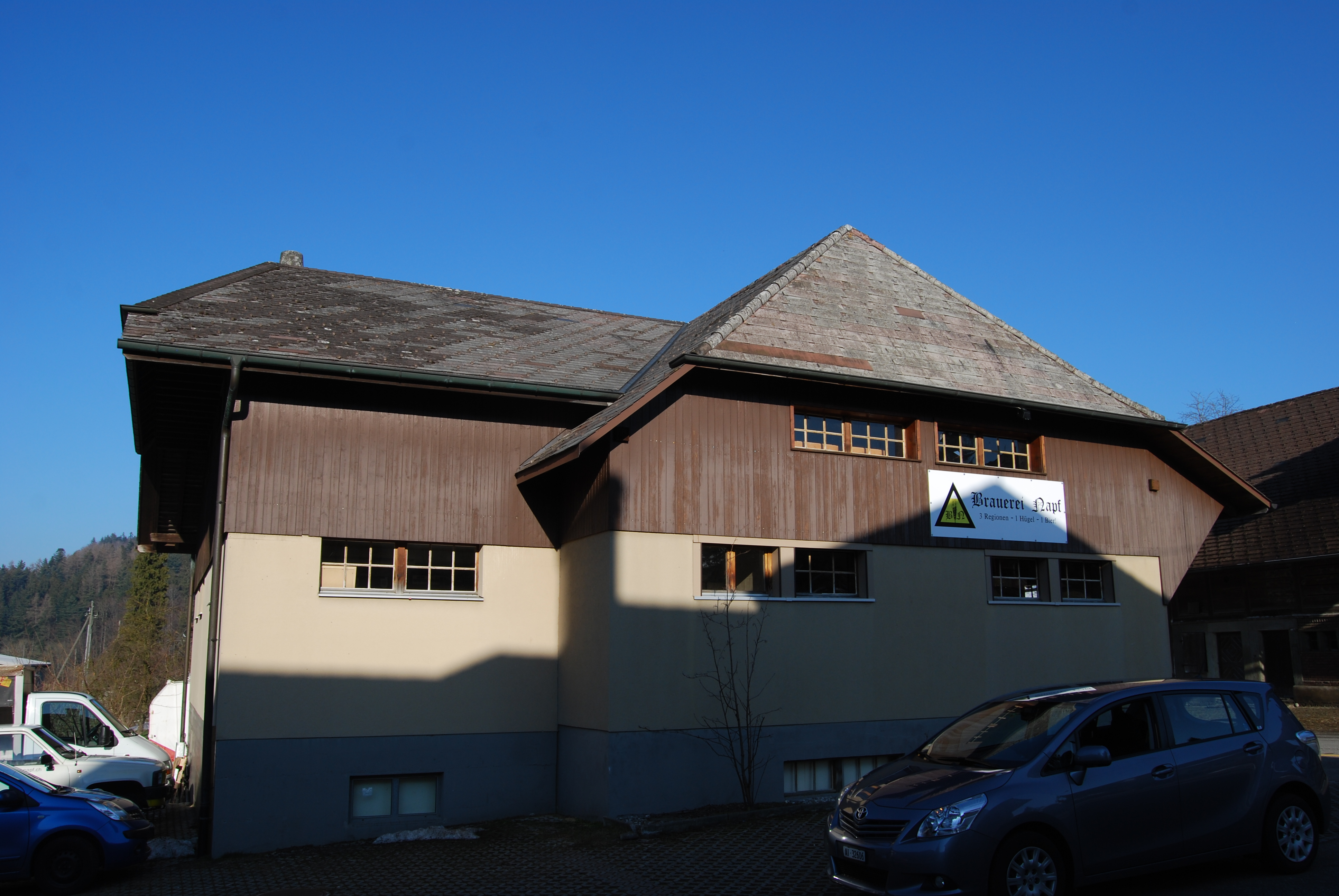 Walterswil, canton of Bern, SwitzerlandEsperanto: Walterswil, Kantono Berno, Svislando